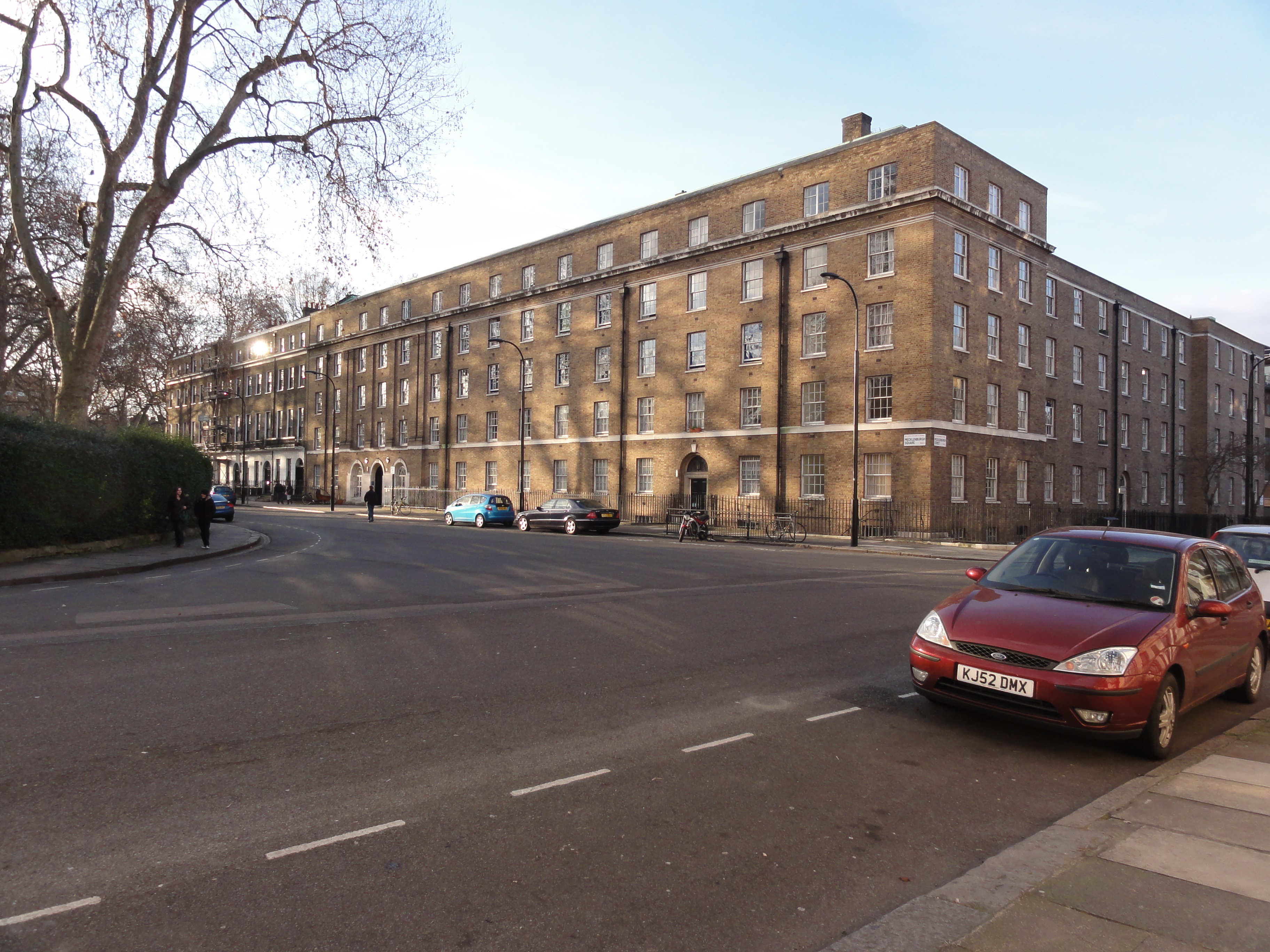 The corner of Mecklenburgh Square and Heathcote Street in the Borough of Camden, London.